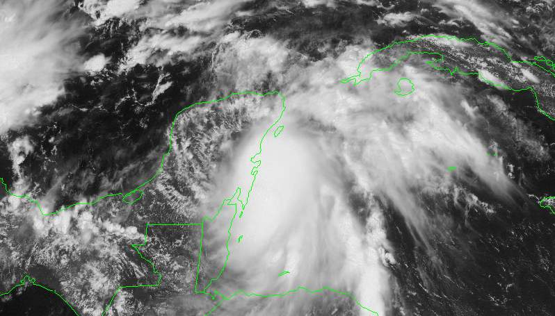 From this image shows Hurricane Dolly near its landfall on the Yucatan Peninsula on August 20, 1996.